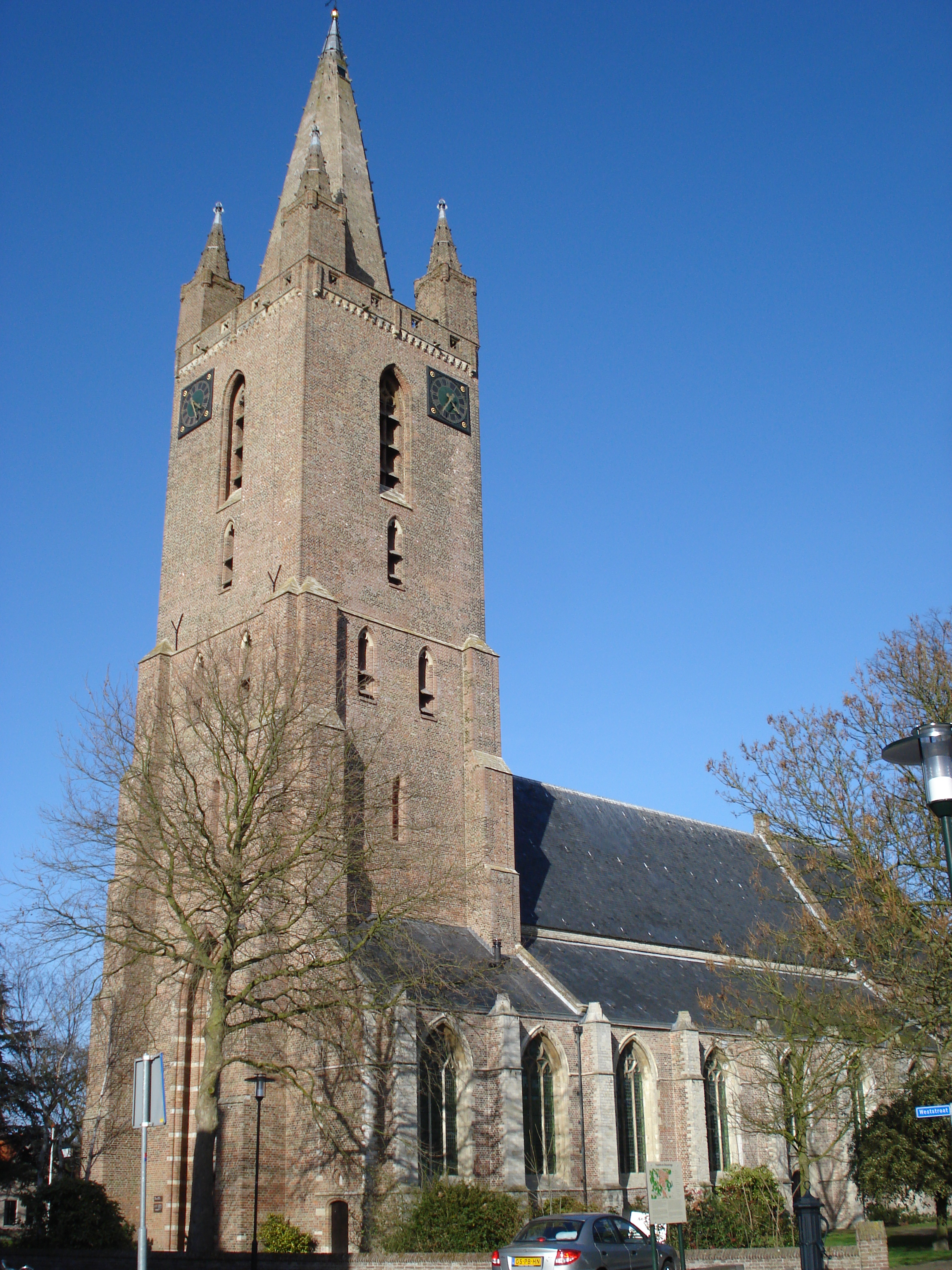 Kapelle, protestant church (Dutch Reformed)